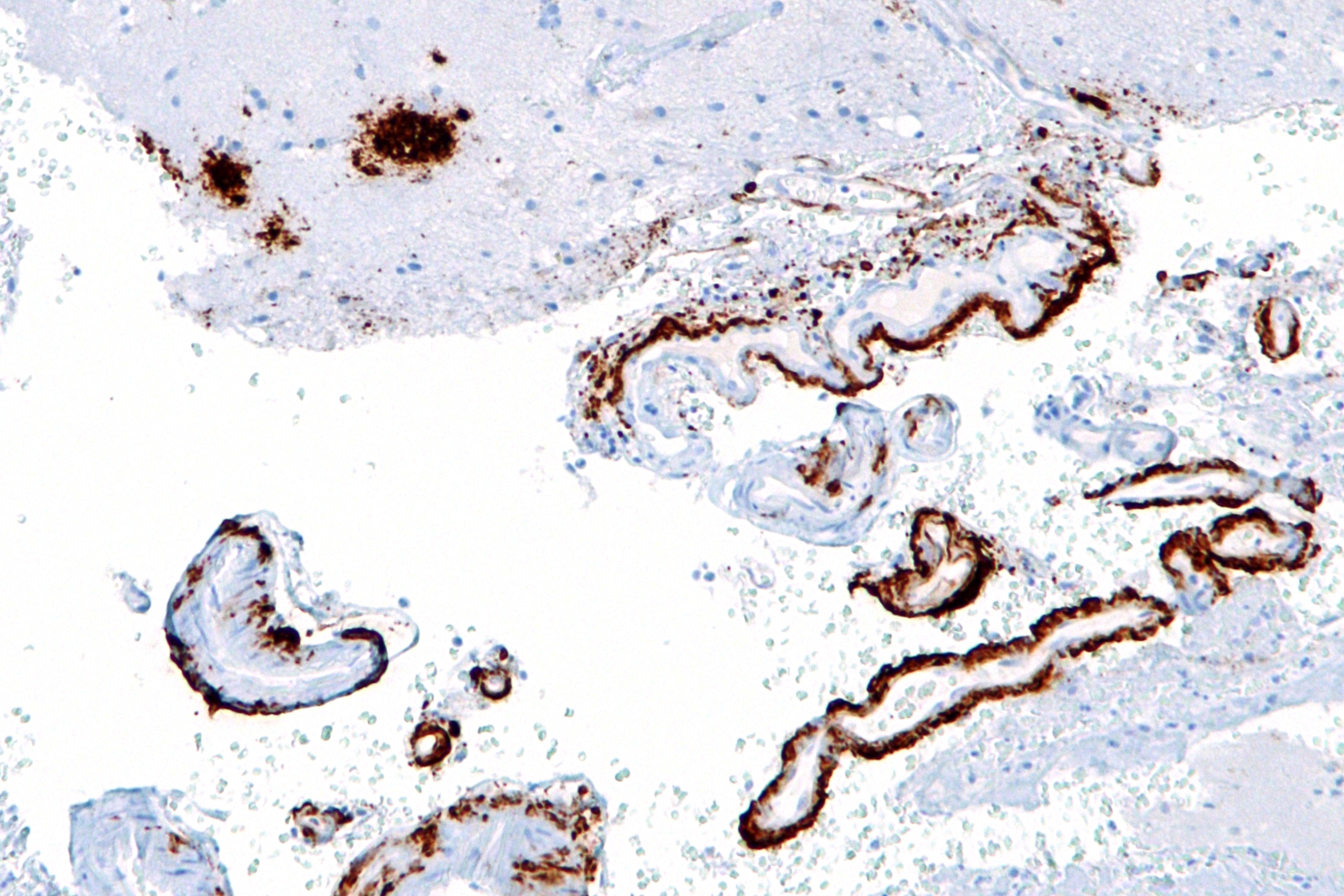 Intermediate magnification micrograph of cerebral amyloid angiopathy with senile plaques in the cerebral cortex consistent of amyloid beta, as may be seen in Alzheimer disease. Amyloid beta immunostain. Related images Very low mag. Low mag. Intermed. mag. High mag. Intermed. mag. Intermed. mag. High mag. Very high mag.